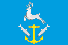 Flag of Novy Port rural settlement, Yamal Nenetsia, Russia